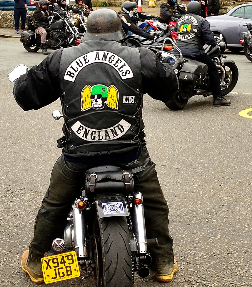 Blue Angels Motorcycle Club, England, colors, cropped from a photo taken at South Queensferry, Scotland.